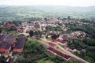 LA CUMBRE VALLE